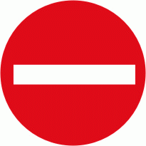 Diagram of road signs of Luxembourg